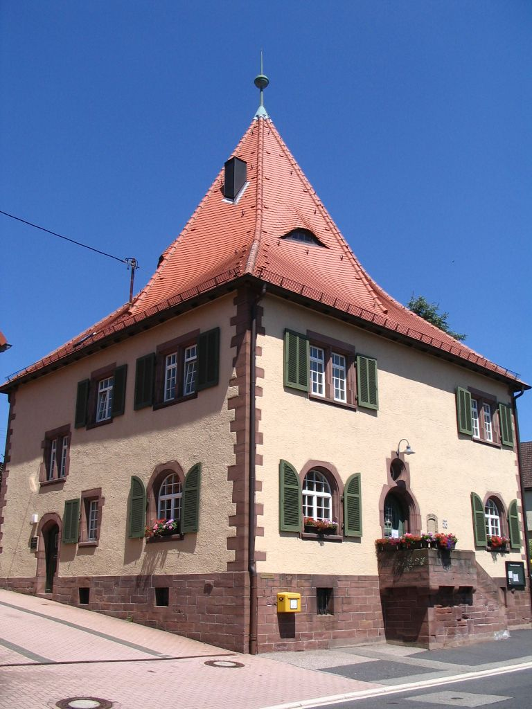 Town-hall of Langenalb in Straubenhardt, Germany